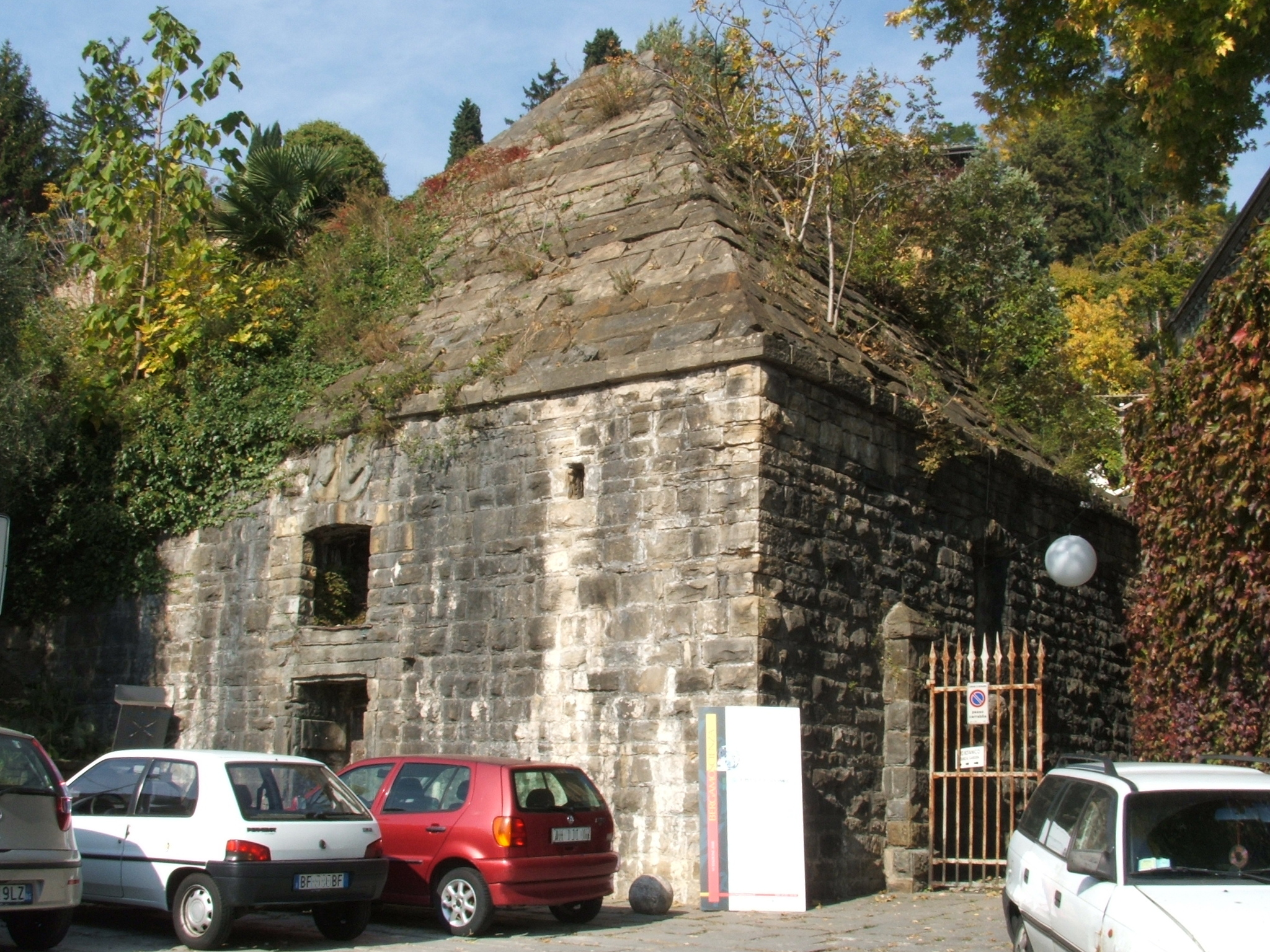 Bergamo, Lombardy, Italy